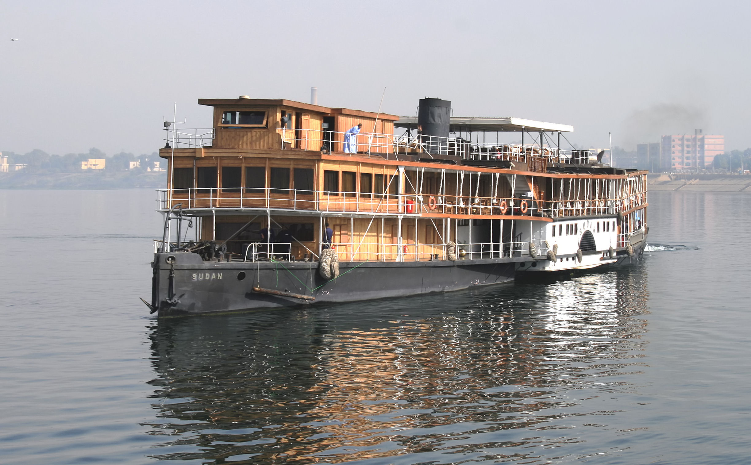 Old ship on Nile river in Aswan, Egypt